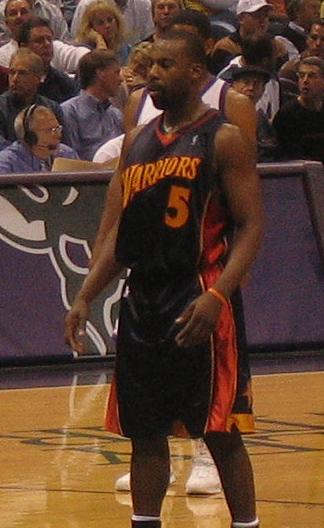 Baron Davis with the Golden State Warriors (cropped)